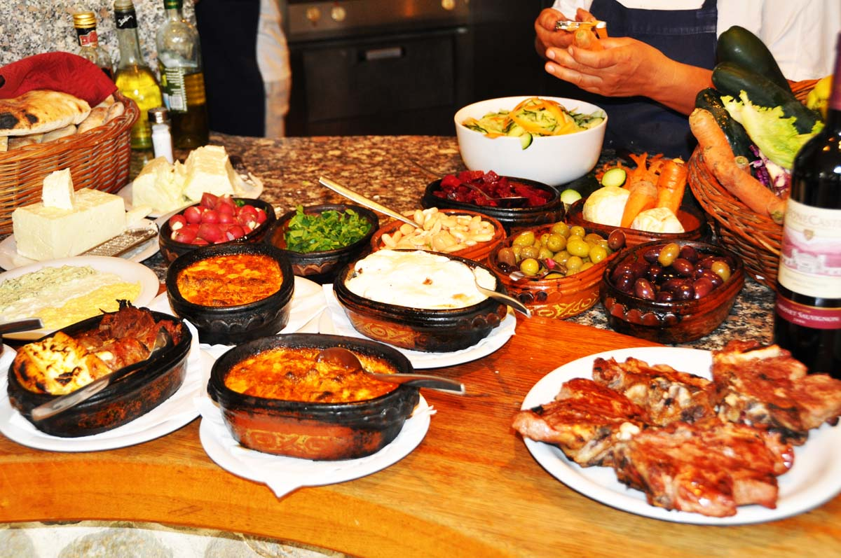 Traditional Dishes at Restaurant Tiffany in Prishtina